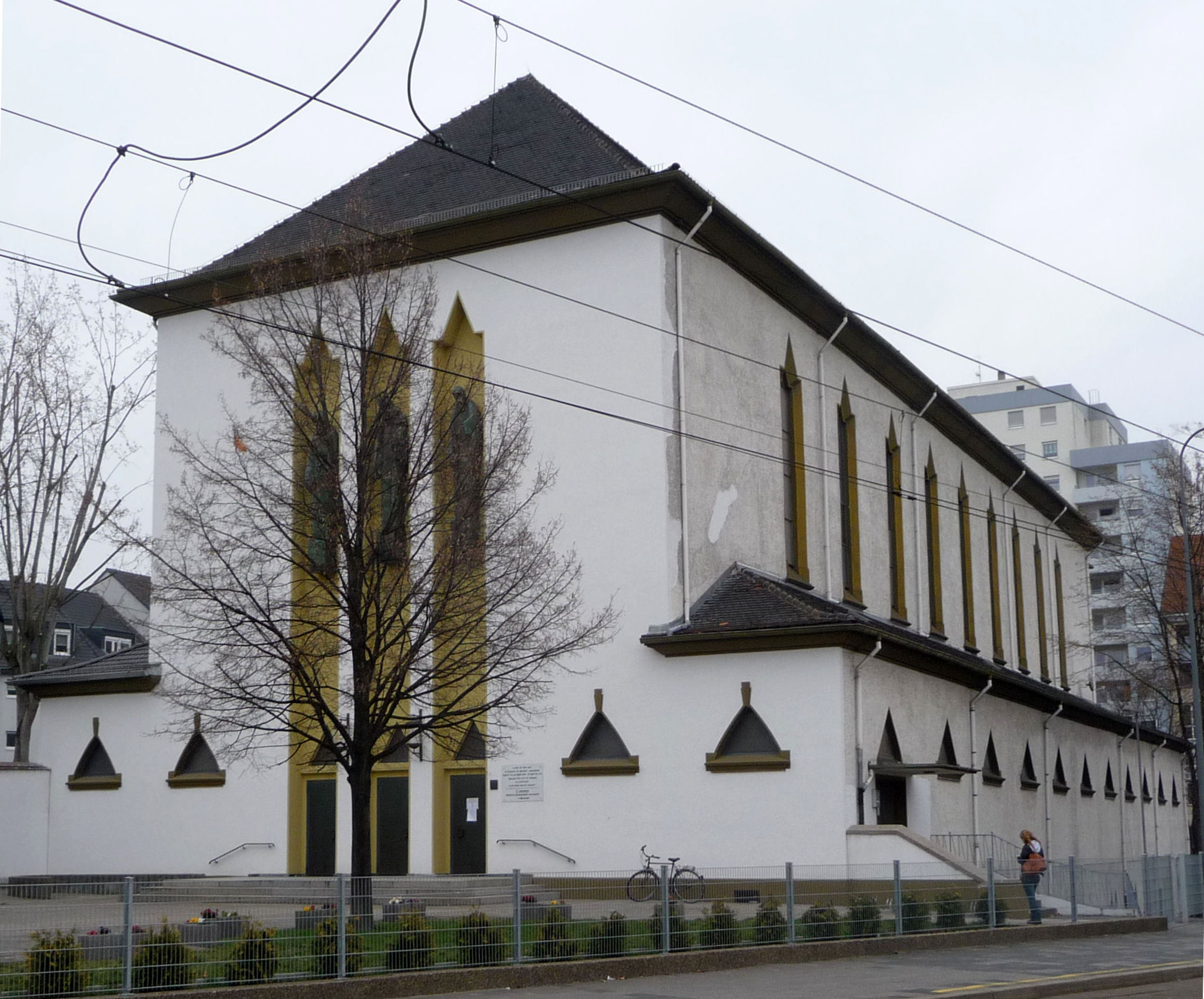 St. Mary Church in Ludwigshafen, Germany